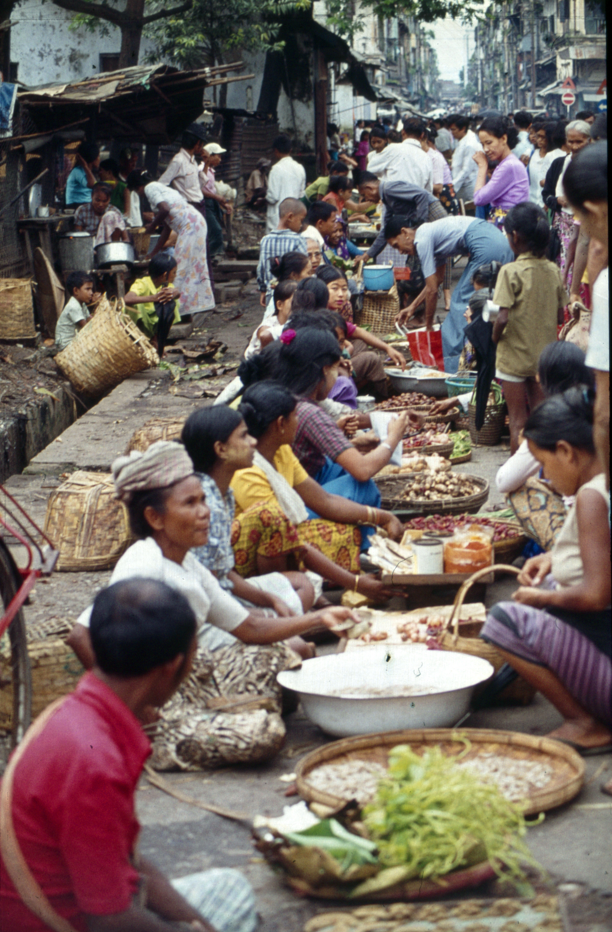 Yangon in Myanmar 1976